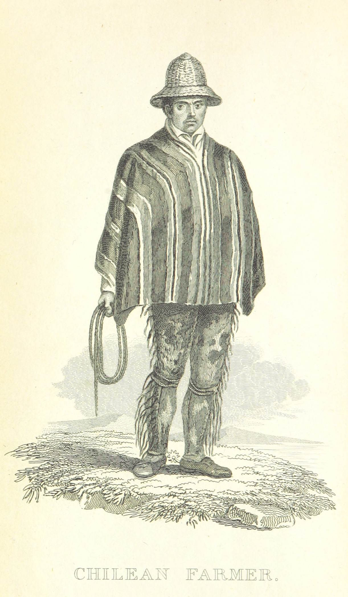 Image taken from: Title: "A Historical and Descriptive Narrative of Twenty Years' Residence in South America ... containing travels in Arauco, Chile, Peru, and Columbia; with an account of the revolution, its rise, progress, and results" Author: STEVENSON, William Bennet. Shelfmark: "British Library HMNTS 1050.h.19-21." Volume: 03 Page: 8 Place of Publishing: London Date of Publishing: 1825 Publisher: Hurst, Robinson & Co. Issuance: monographic Identifier: 003502024 Note: The colours, contrast and appearance of these illustrations are unlikely to be true to life. They are derived from scanned images that have been enhanced for machine interpretation and have been altered from their originals. Explore: Find this item in the British Library catalogue, 'Explore'. Open the page in the British Library's itemViewer (page: 8) Download the PDF for this book Click here to see all the illustrations in this book and click here to browse other illustrations published in books in the same year. Please click on the tags shown on the right-hand side for other ways to browse the illustrations.